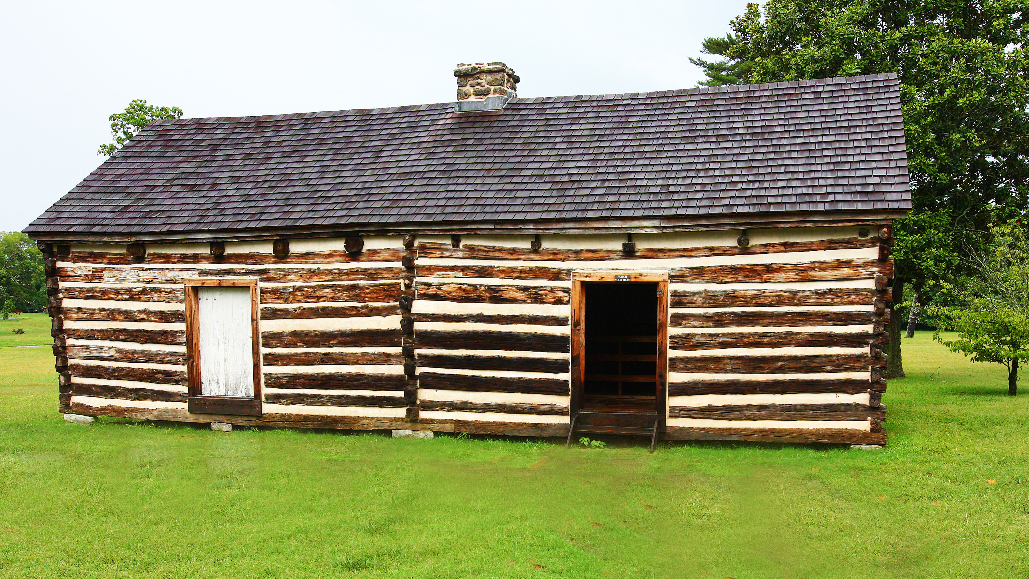 Alfred Jackson was born at the Hermitage. Indeed, both his mother and father were slaves on Jackson's Hermitage plantation. Following the war and emancipation, Alfred remained at the Hermitage. He eventually moved into this cabin. Alfred became a tour guide and caretake at the Hermitage. He died in 1901 and is buried close to President Jackson.